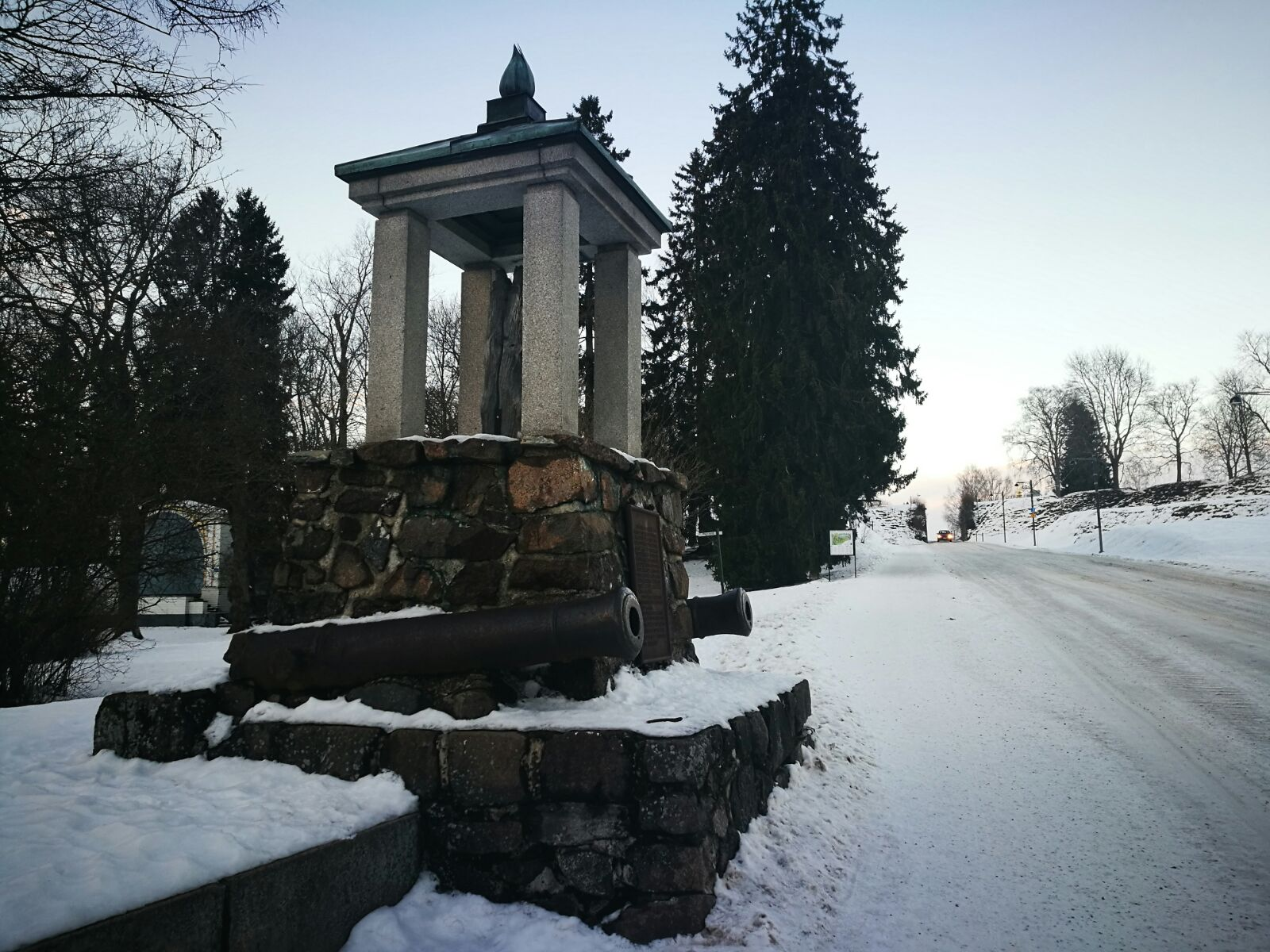 Lappeenrannan taistelun muistomerkki